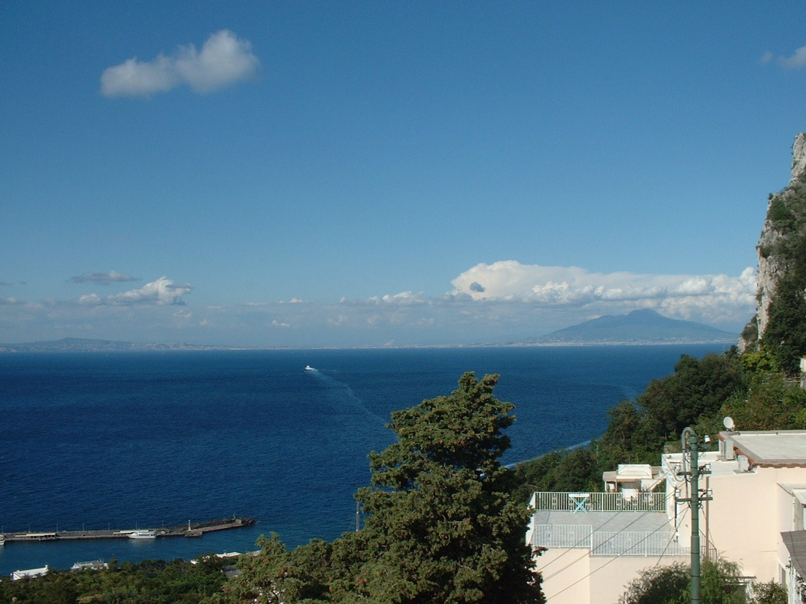 The Gulf of Naples in September 2002 (with Mount Vesuvius and the city of Naples).